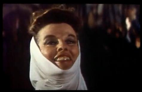 Screenshot of Katharine Hepburn in the film The Lion In Winter (1968)